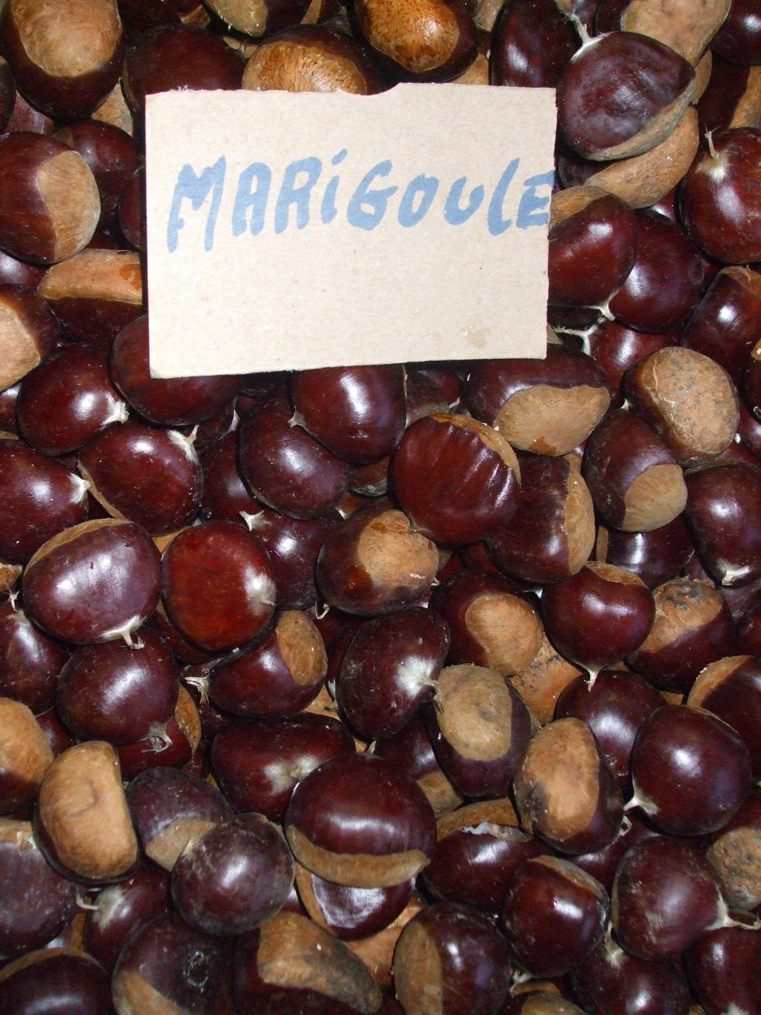 Chestnuts, Castanea sativa fruit, marigoule cultivar. Marché Thiers, Brive-la-Gaillarde, France